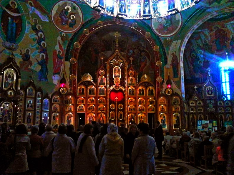 Interior of Orthodox Holy Spirit church in Białystok.